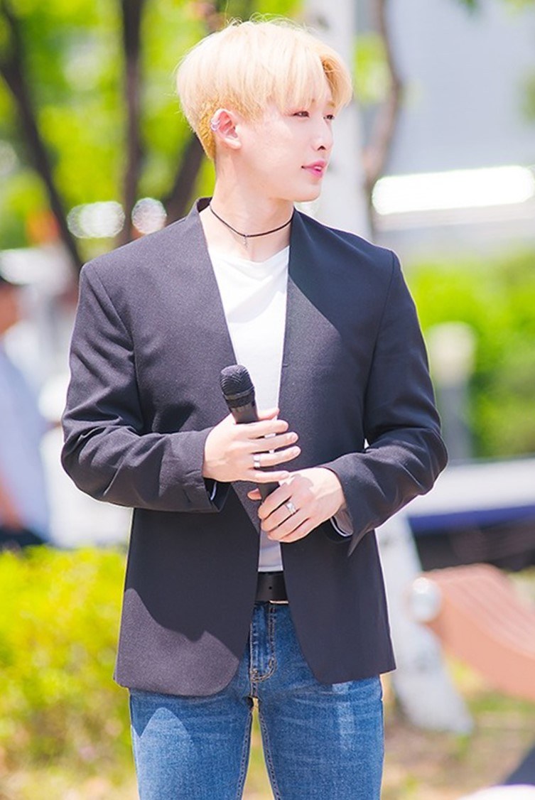 Wonho at a fanmeet on May 21, 2016.